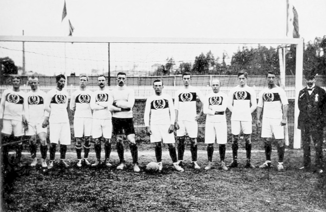 Germany national football team at the 1912 Summer Olympics. From left to right: Burger, Reese, Fuchs, Thiel, Hempel, Werner, Förderer, Oberle, Uhle, Glaser and Ugi.